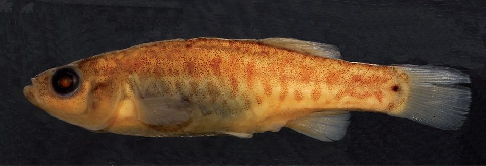 Aphanius mesopotamicus, holotype, female, 29.3 mm SL (CMNFI 1979-0360A).